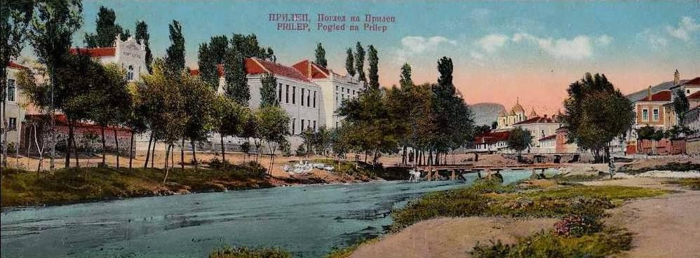 Prilep, Macedonia between 1910 and 1915